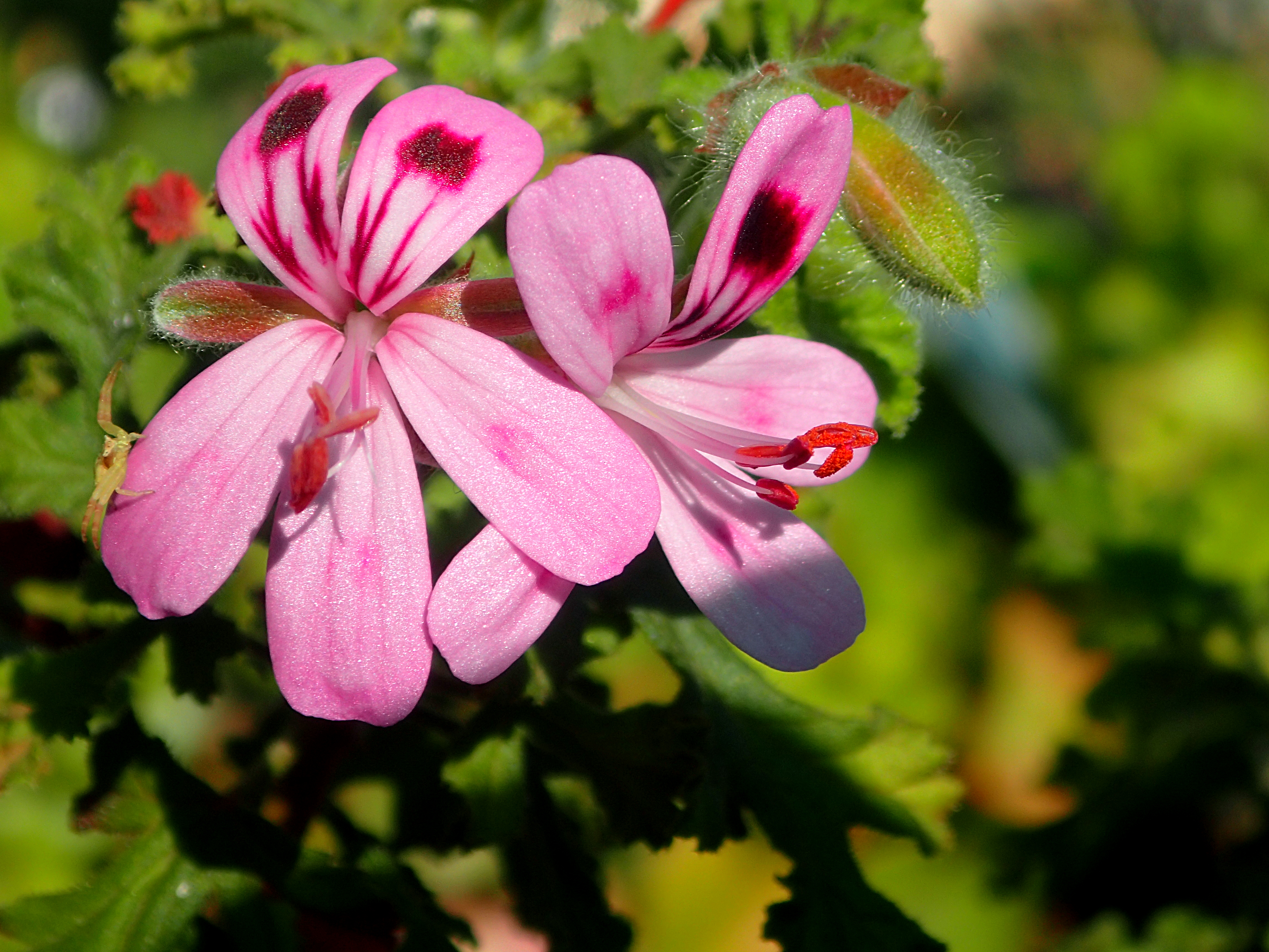 oakleaf geranium, Pelargonium quercifolium, photographed in a shade house of the Karoo National Botanical Gardens,Worcester, South Africa